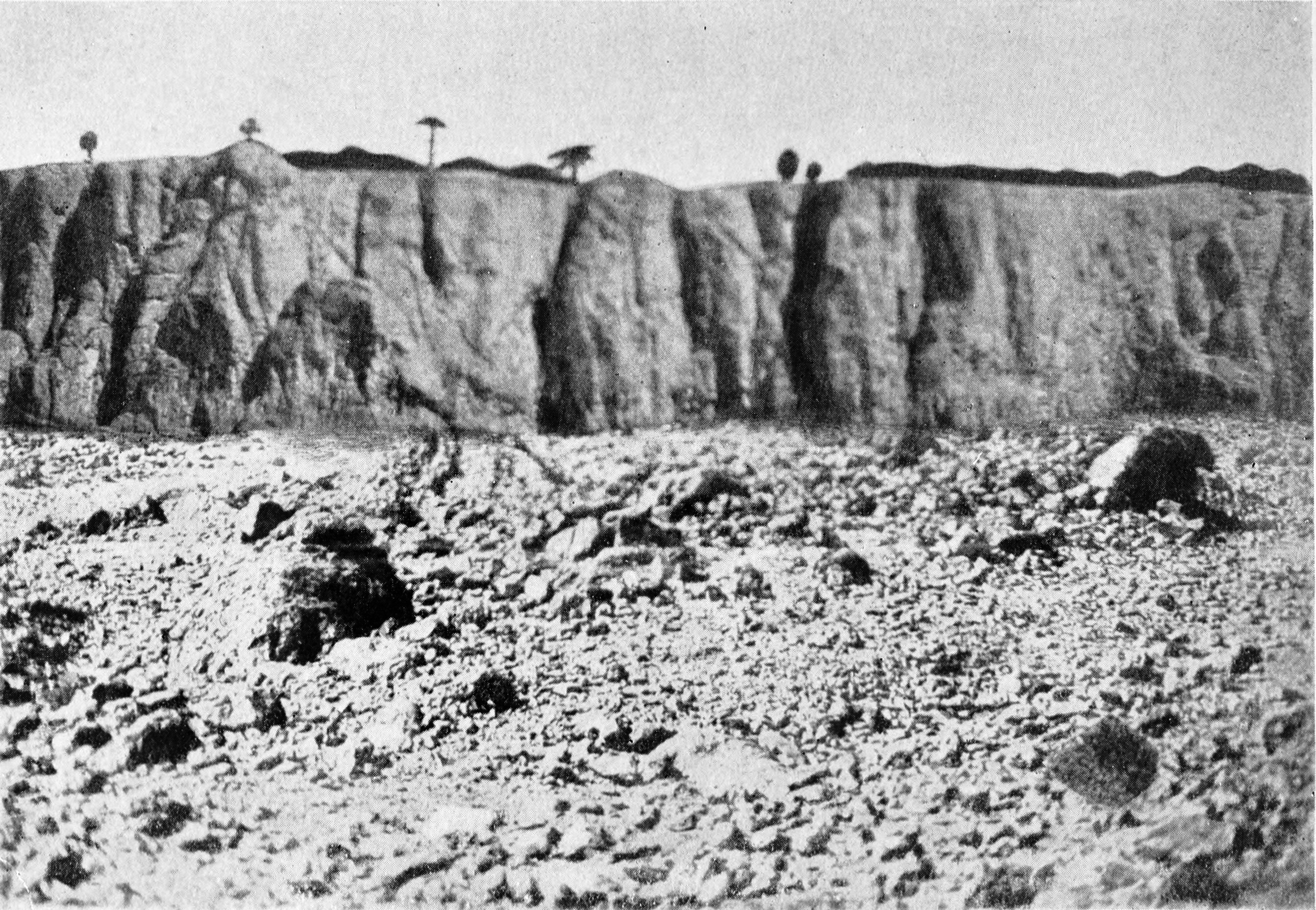 A page scan of a book The Lost World by Arthur Conan Doyle image cropped, captions removed